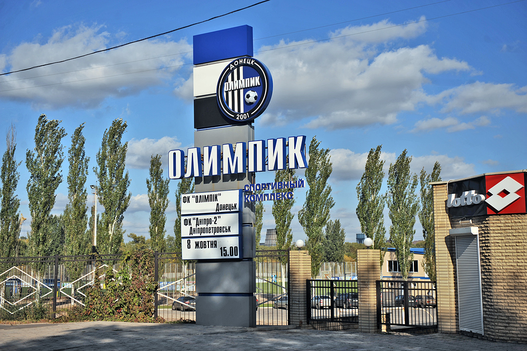 Olimpik Stadium in Donetsk, Ukraine